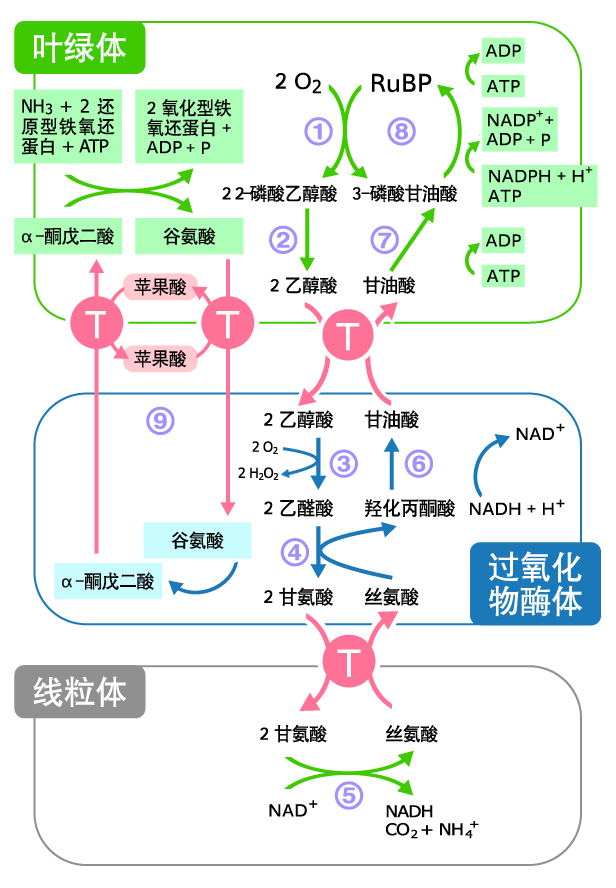 photorespiration